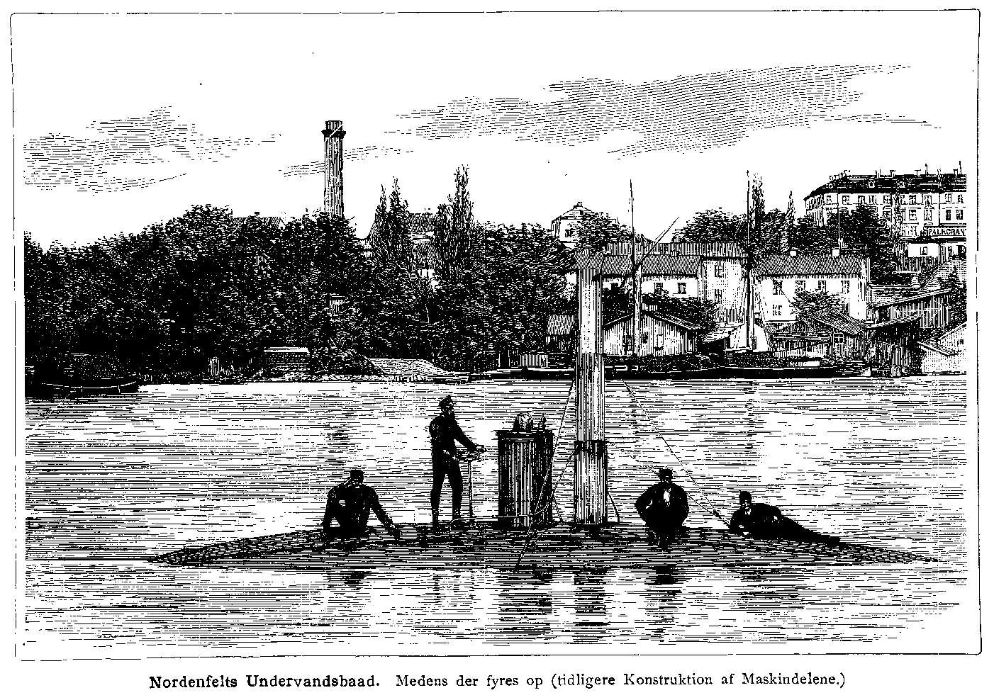 The Nordenfelt Submarine attracted considerable interest all over Europe. The Danish weekly Illustreret Tidende featured this illustration on October 4, 1885, along with an article describing how the new invention had been demonstrated in the Sound for king Christian IX of Denmark and his son in law, the Prince of Wales, along with other dignitaries. The illustration shows an early version with larger conning tower, putting up steam.